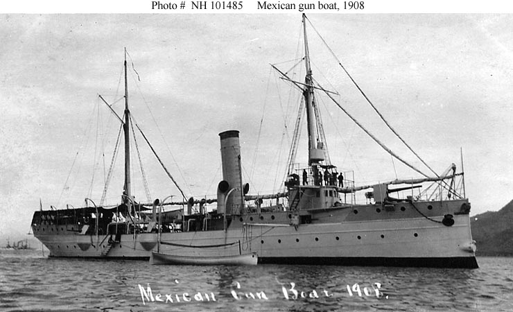 The Mexican Navy gunboat Tampico in 1908, before her sinking during the Topolobampo naval campaign of the Mexican Revolution. Copyright 2008. GDFL.